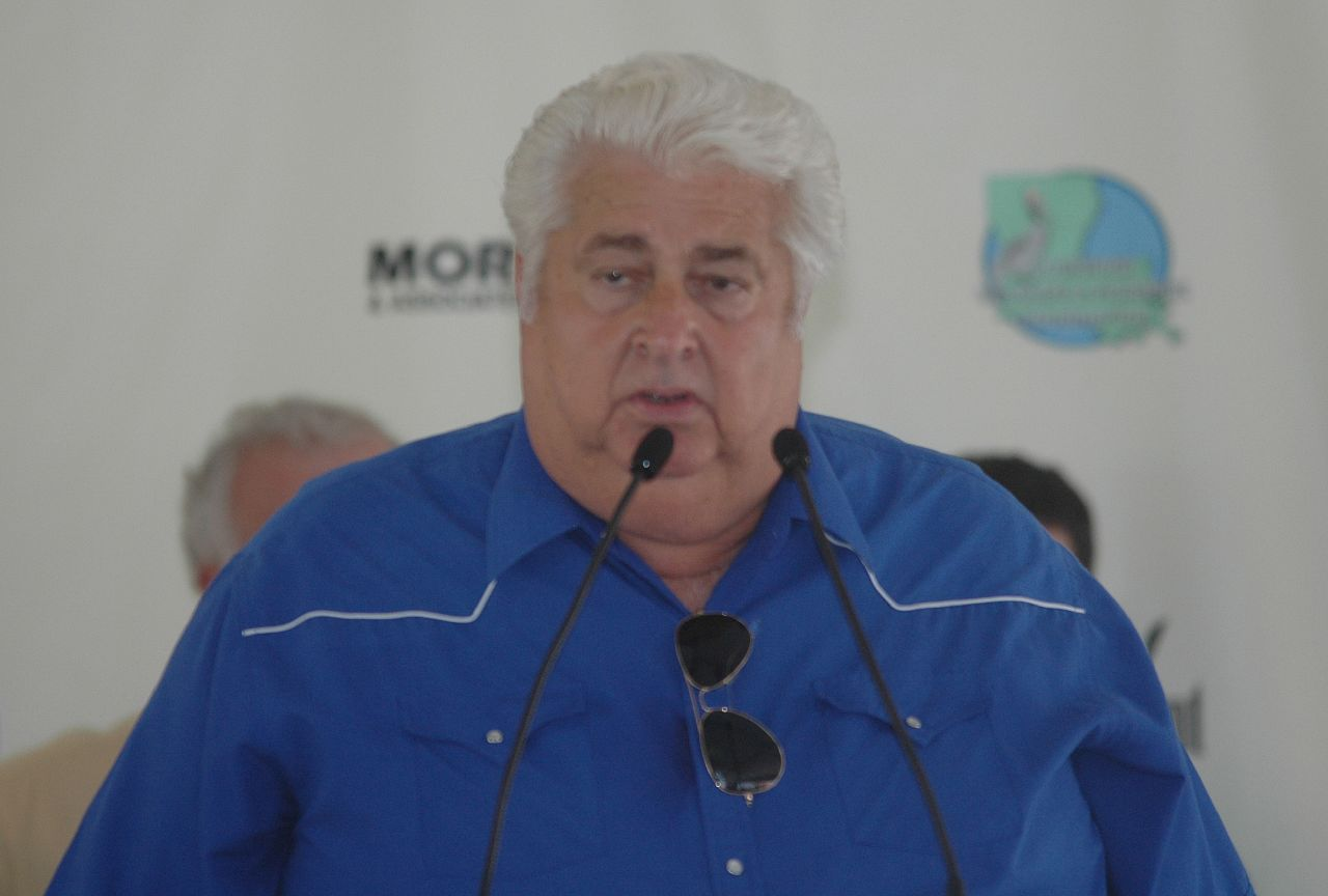 Henry "Junior" Rodriguez, St. Bernard Parish President, speaks at the dedication of the Southeast Louisiana Regional Ice Hub in Chalmette, Louisiana.